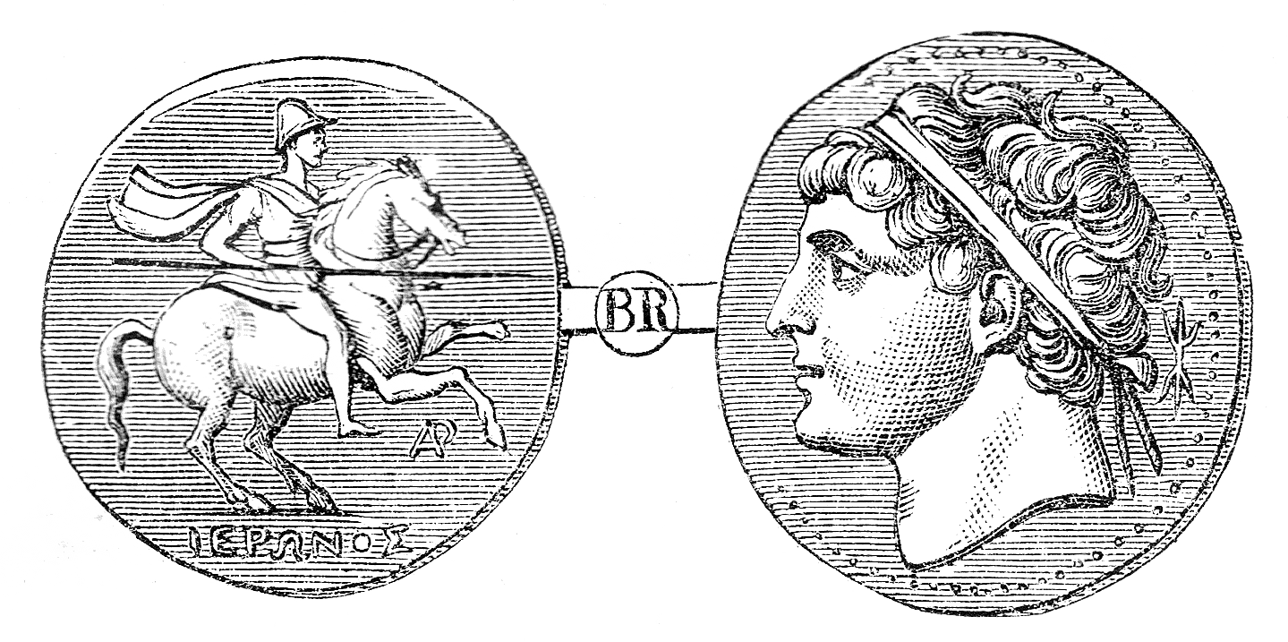 Illustration from Illustrerad verldshistoria utgifven av E. Wallis. (Volume I): "Hiero I from a coin from Syracuse."